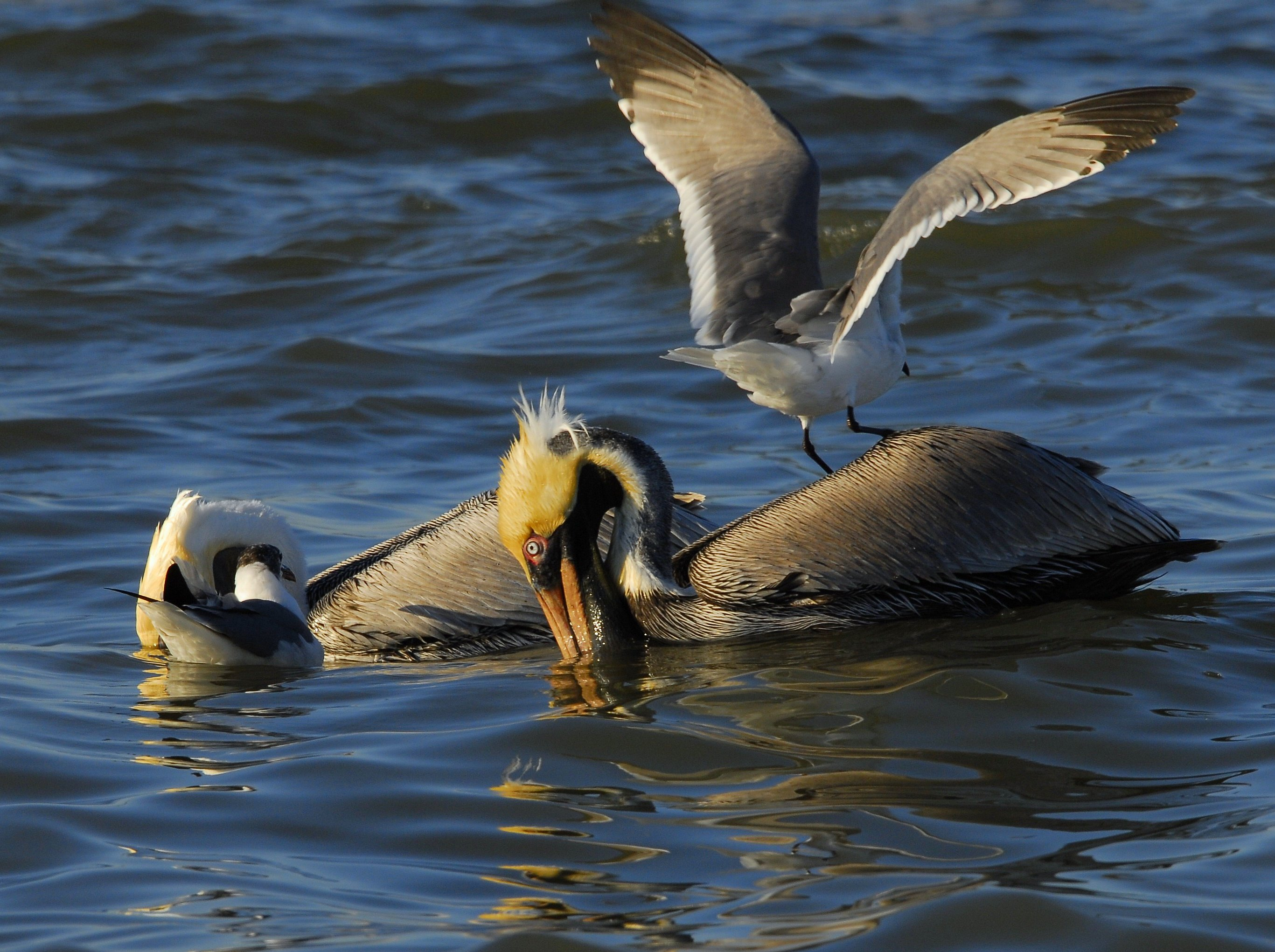 Brown Pelicans and Gull at Smyrna Dunes Park